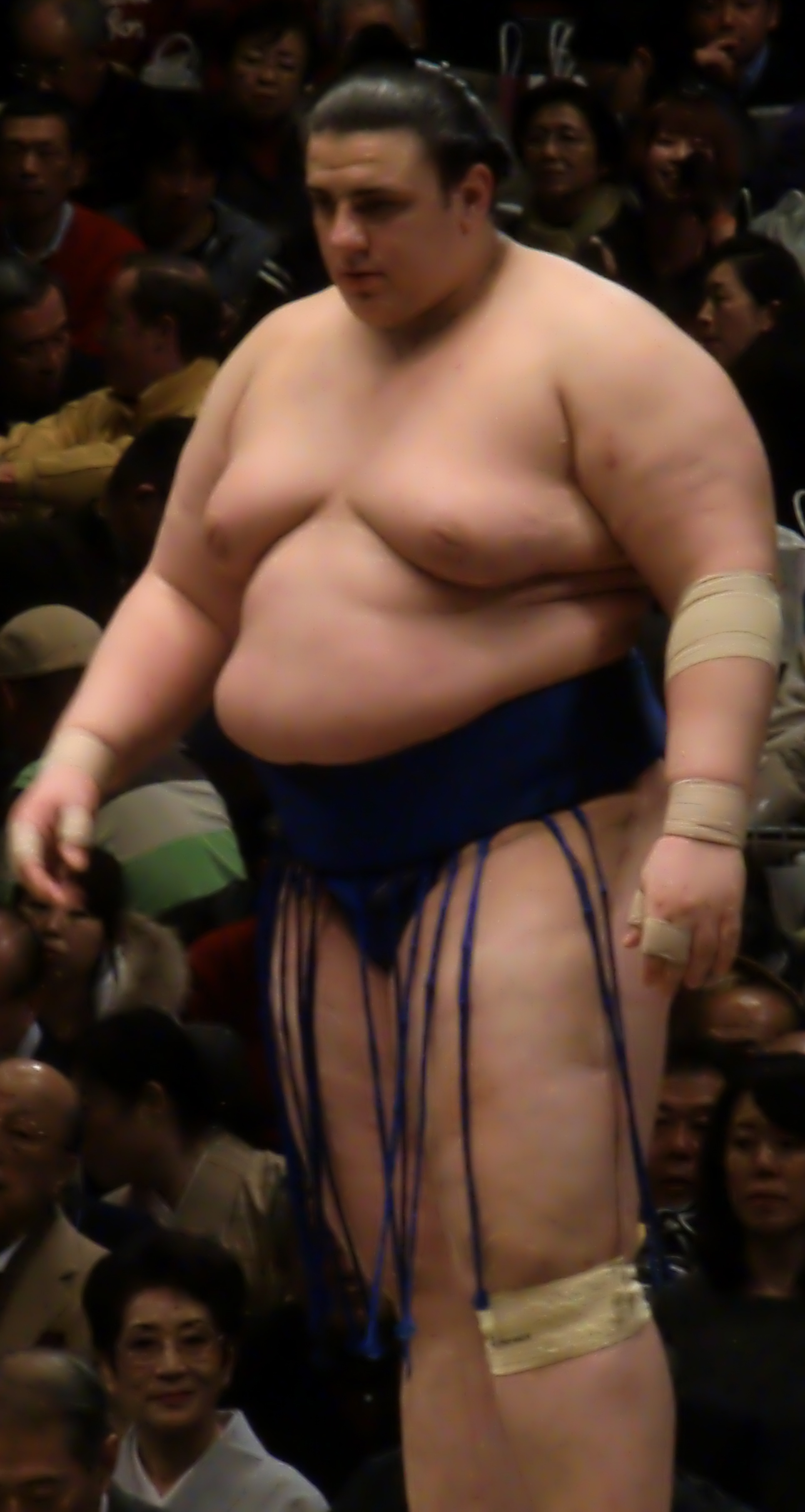 taken at 2012 Jan tournament